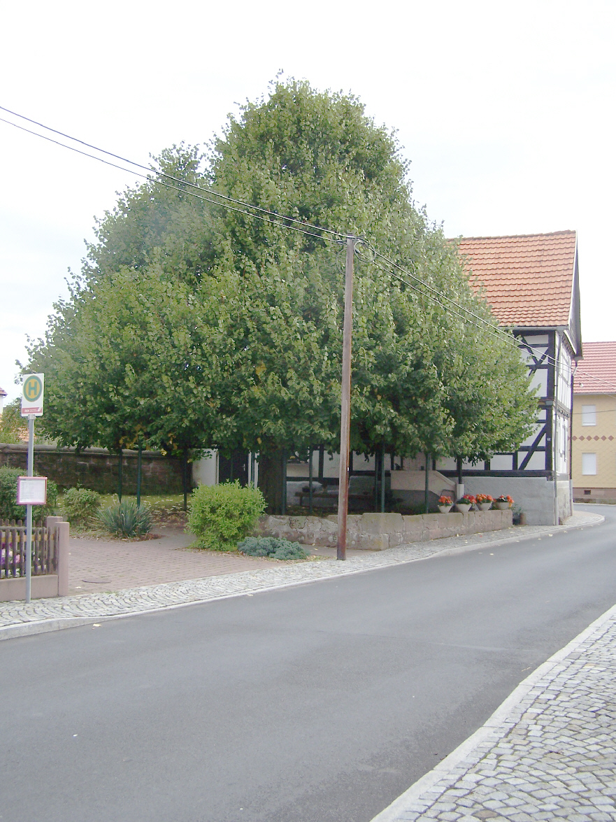 The dancing place - under the linden-tree at the church in Grossensee.